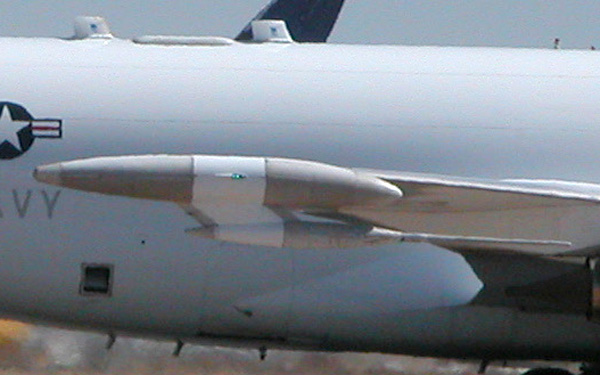 Wingtip detail of U.S. Navy E-6 Mercury